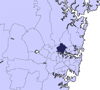 Locator Map Ryde lga sydney.png Based on Image:Ku-ring-gai sydney.png by User:Randwicked.